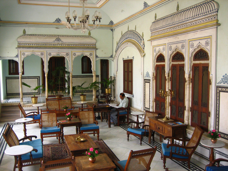 Lounge of the Samode Haveli heritage hotel, Jaipur.